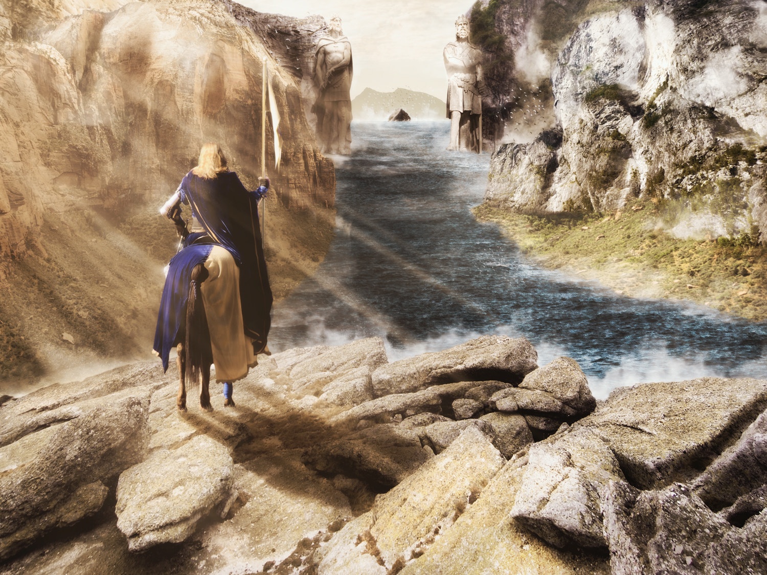 500px provided description: Los Argonath y los saltos del Rauros, y al fondo, Gondor. [#landscape ,#mountains ,#creative ,#art ,#digital ,#fantasy ,#matte painting ,#knight ,#digitalpainting ,#digital manipulation ,#middle earth ,#photo art ,#tolkien ,#fantasy art ,#gondor ,#Falls ,#Lord of the rings ,#Lotr ,#fantasy landscape ,#Argonath ,#Anduin ,#Cair Andros]